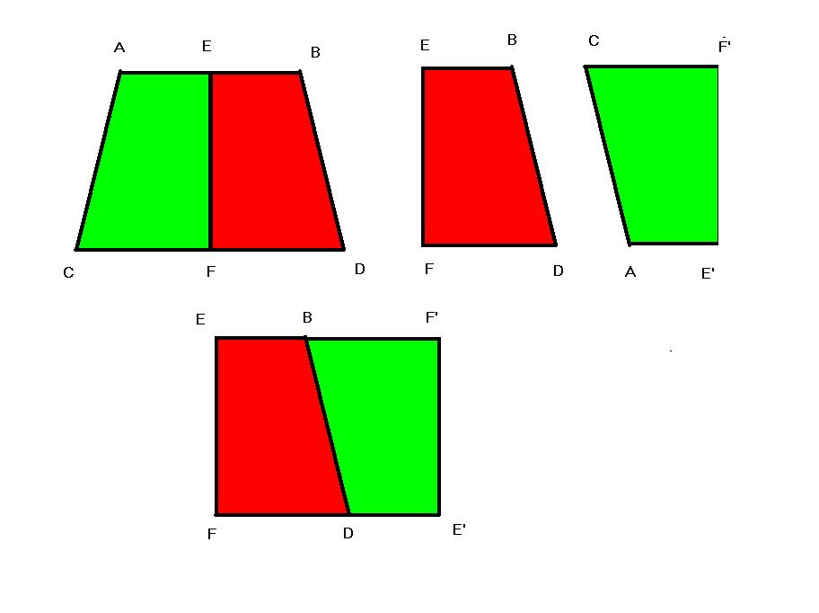 Area of trapezoid 梯形面积